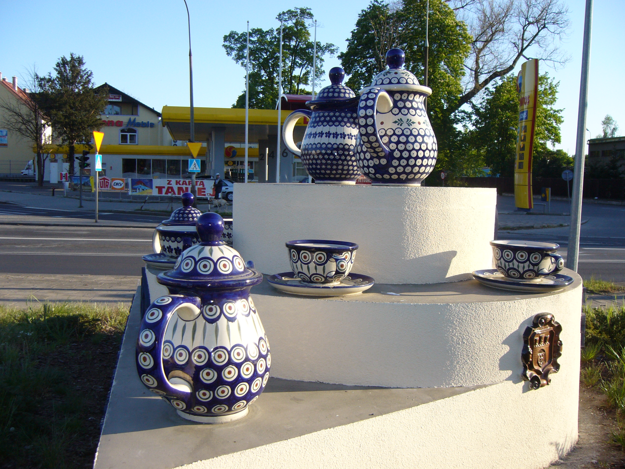 Typical handymade ceramic produced in the city and in nehbourhood since centuries